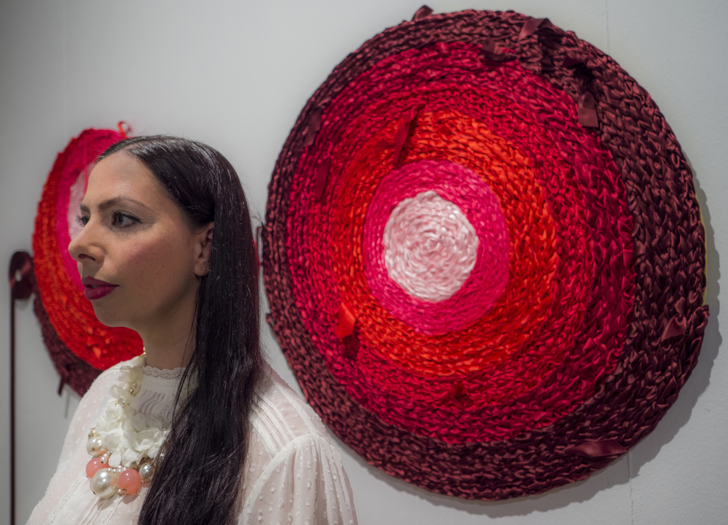 Cristina Rodrigues at her exhibition "La Pasión", in Seville.